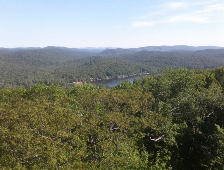 Partial view of Pine Lake (Fulton County, New York) from top of Kane Mountain. Taken June 23, 2019.